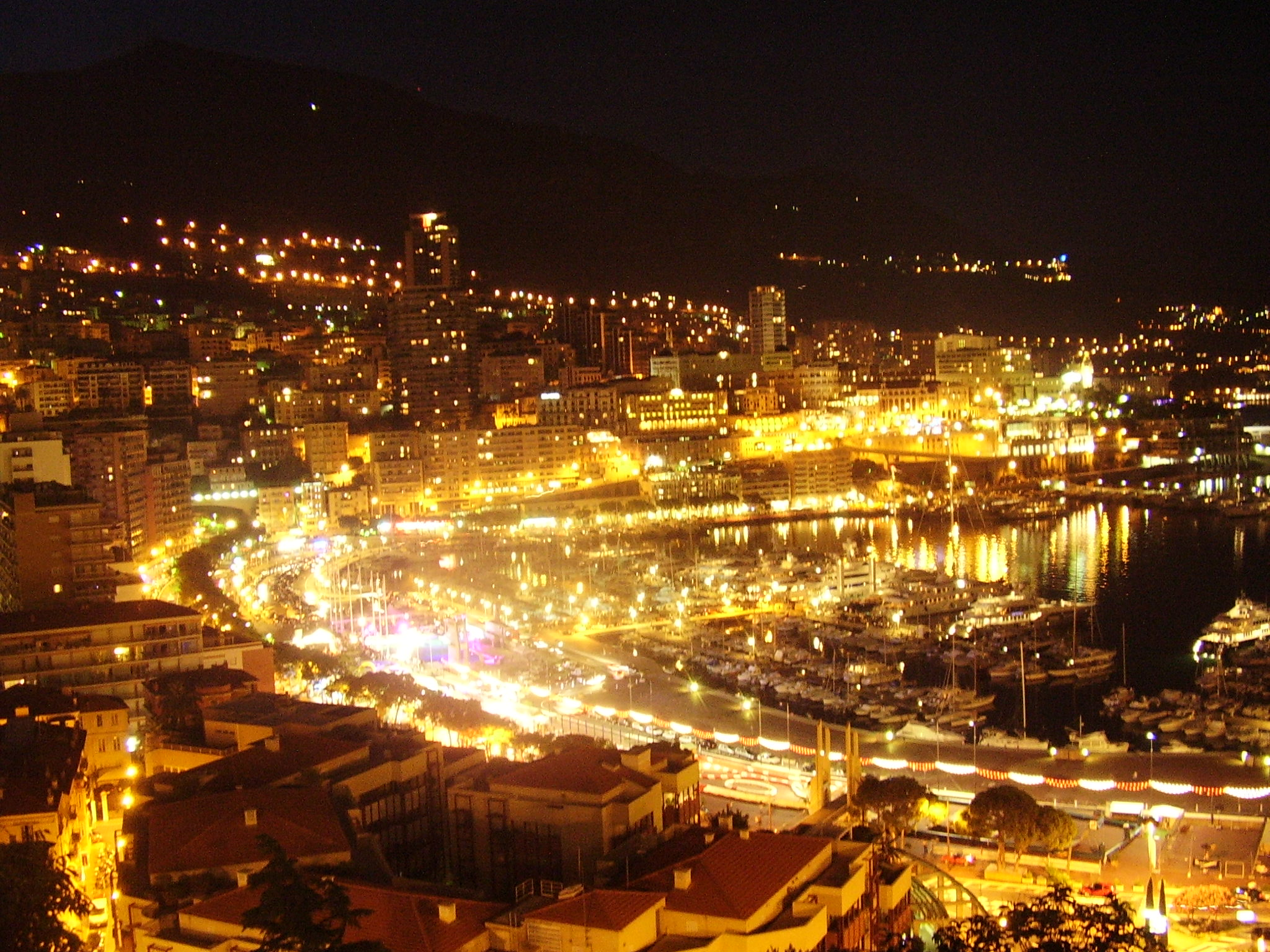 Monaco by night